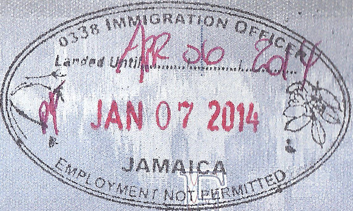 Jamaican passport stamp in a US passport. Issued at Sangster International Airport in Montego Bay. Jamaica does not issue exit stamps.